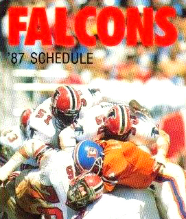 Front cover of a 1987 Atlanta Falcons pocket schedule. The cover depicts the Atlanta Falcons's defensive linemen tackling Denver Bronco's quarterback John Elway during a mid-1980's pre-season game.